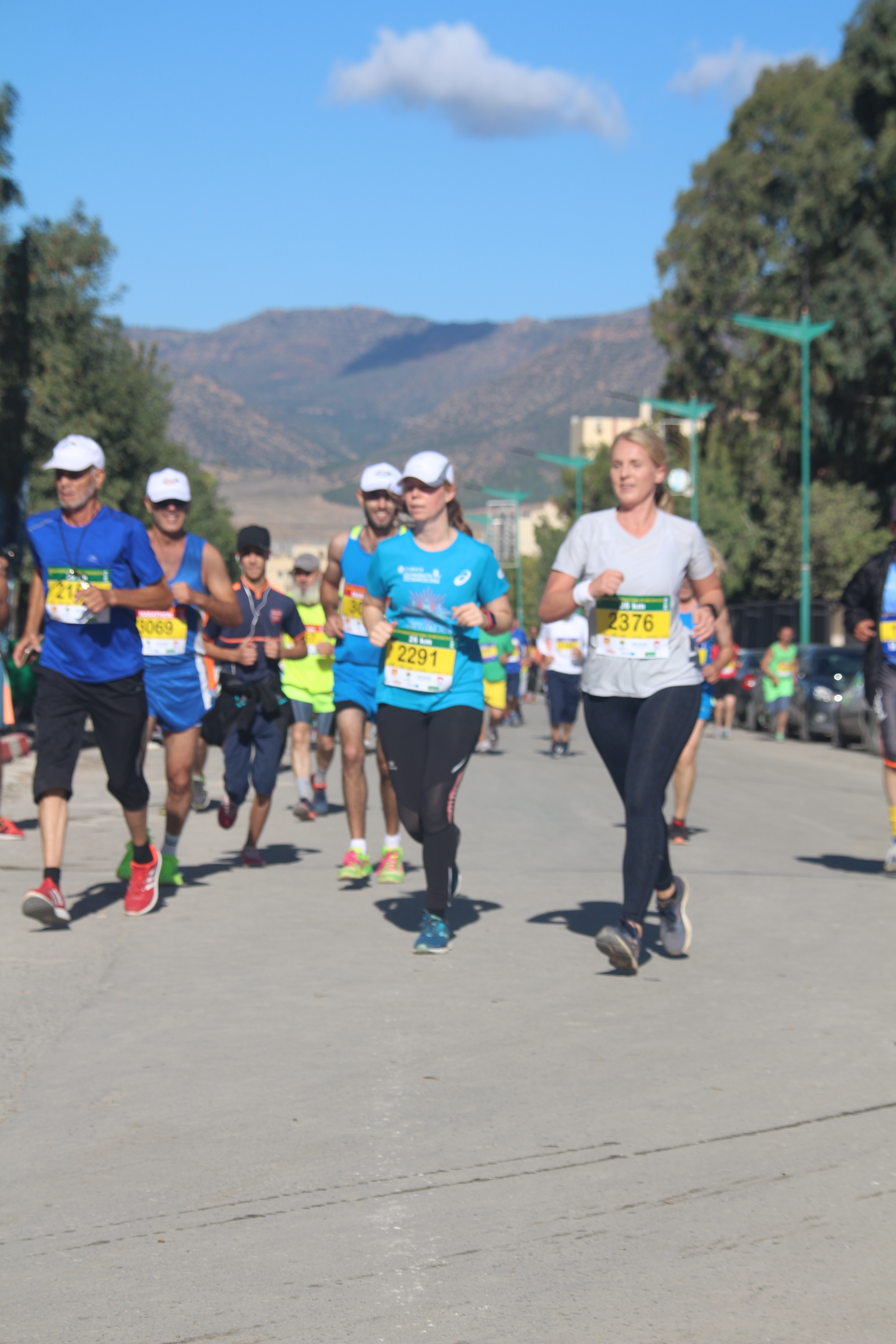 This is an image with the theme "Play" from: Algeria